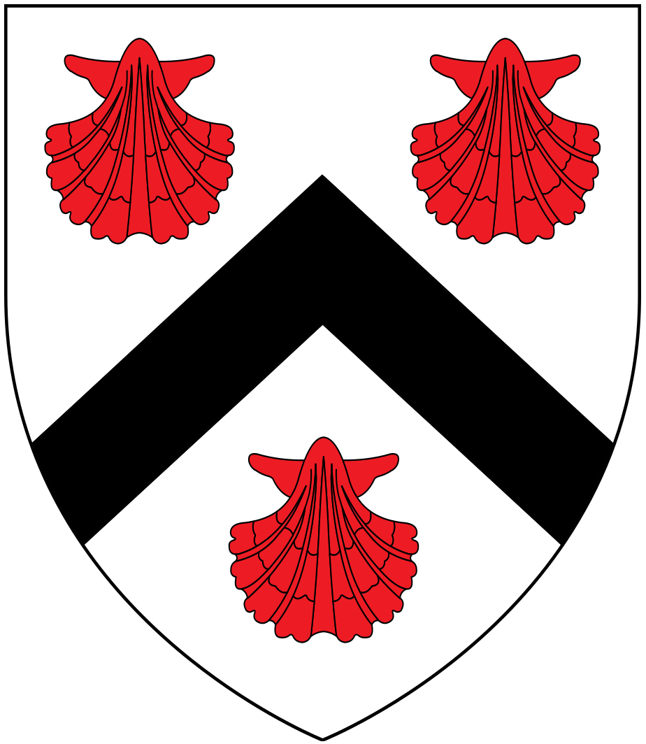 Arms of Pollard of King's Nympton: Argent, a chevron sable between three escallops gules (Vivian, Heraldic Visitations of Devon, 1895, p.597)